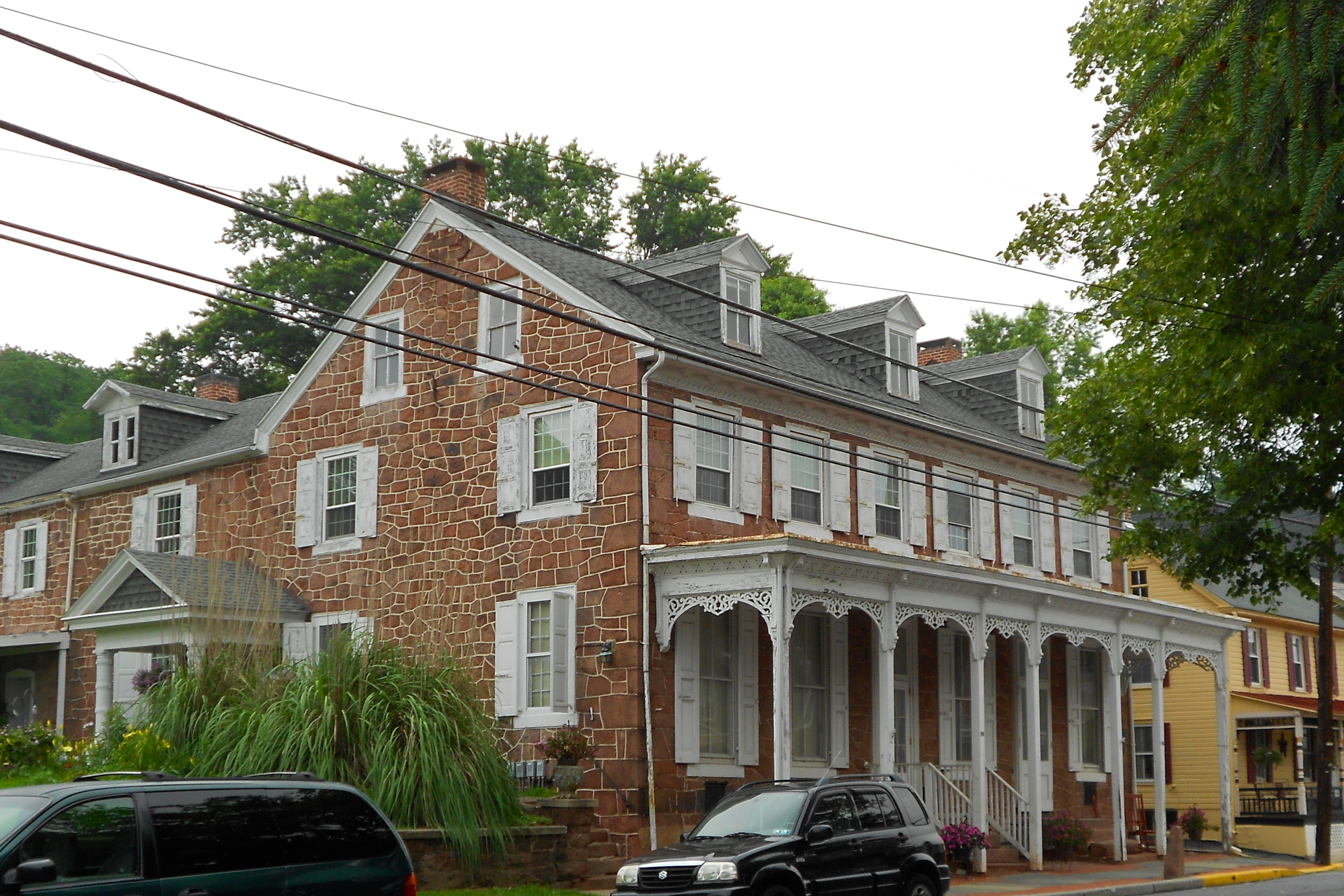 Kagerise Store and House, on the NRHP since November 3, 1988. At 84–86 West Main Street, Adamstown, Lancaster County, Pennsylvania.